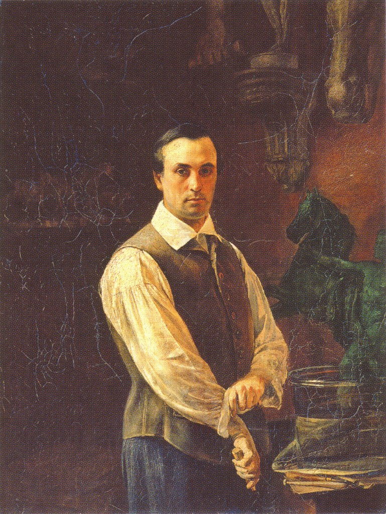 Tadeusz Gorecki – Portrait Peter Clodt von Jürgensburg